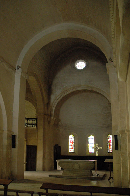 Monastery of Saint-Paul-de-Mausole. Saint Rémy, France